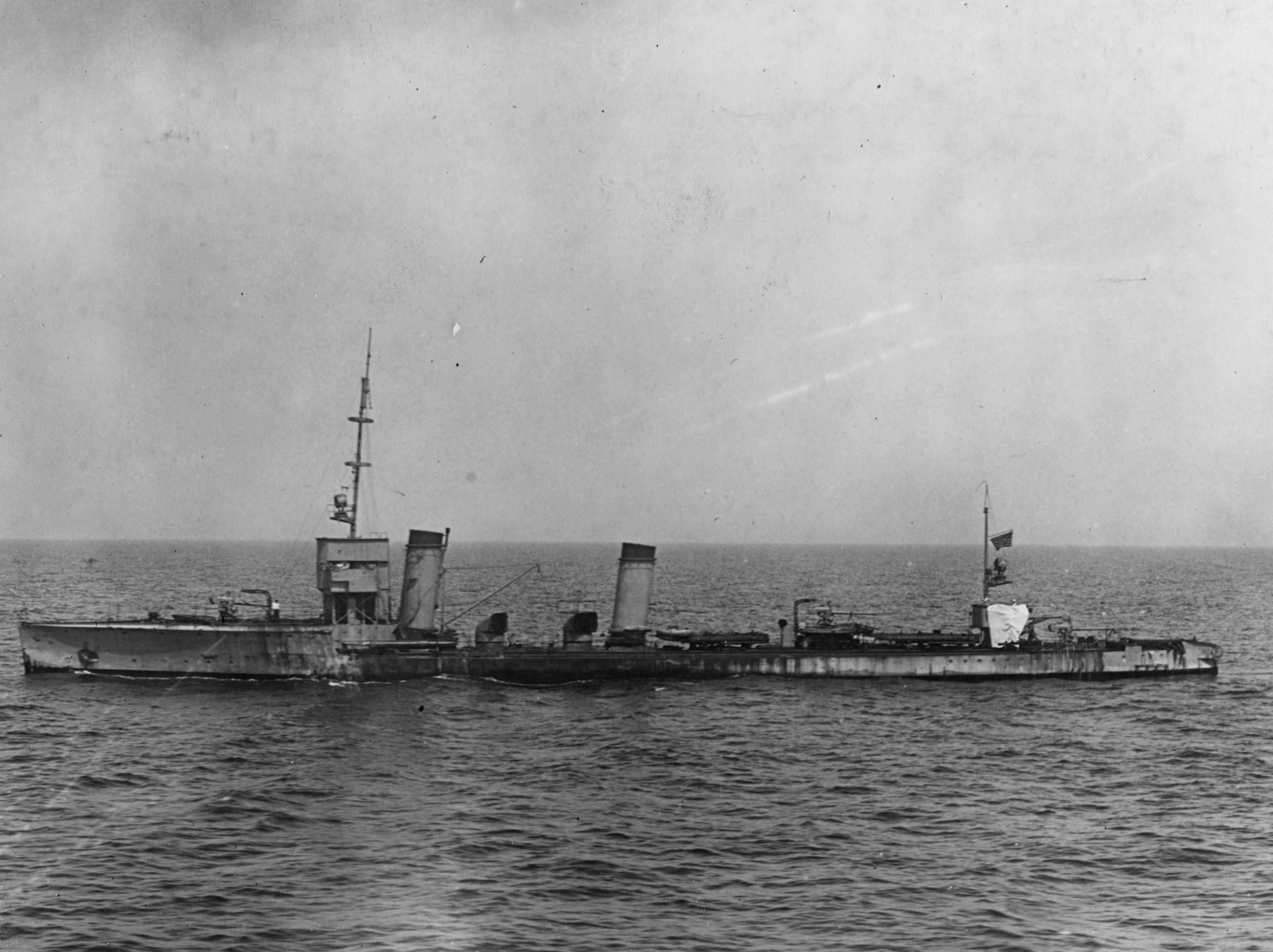 The former German large torpedoboat SMS S 132 underway while serving with the U.S. Navy. S 132 was commissoned on 2 October 1917 and was interned with the German High Seas Fleet at Scapa Flow, Scotland (UK), on 22 November 1918. After a failed scuttling on 21 June 1919, she was taken over by the U.S. Navy. Following extensive trials, she was sunk as a target off Cape Henry on 15 July 1921 by the battleship USS Delaware (BB-28) and the destroyer USS Herbert (DD-160).